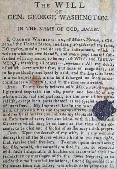 Published in the Connecticut Journal, New Haven, February 20, 1800